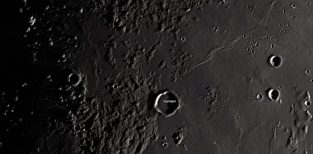 Gambart lunar crater as seen from Earth with satellite craters labeled